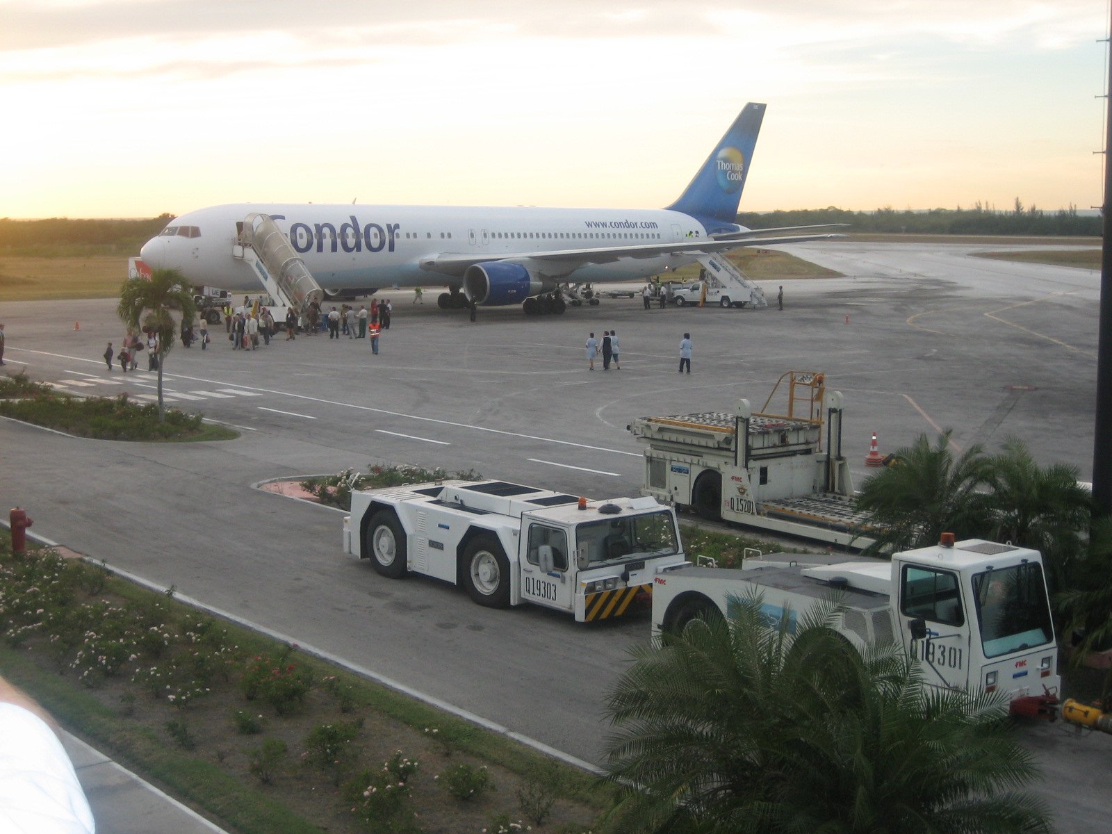 Airplane of Condor at the Holguín-Airport in Cuba